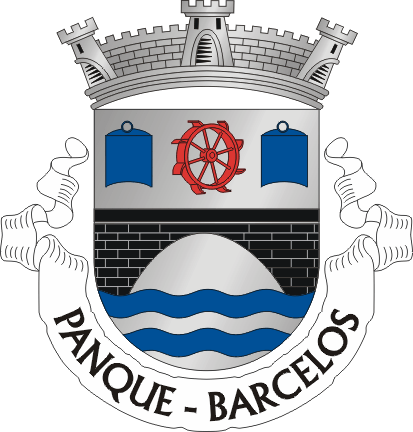 Crest of Panque, a parish in the municipality of Barcelos (Portugal)